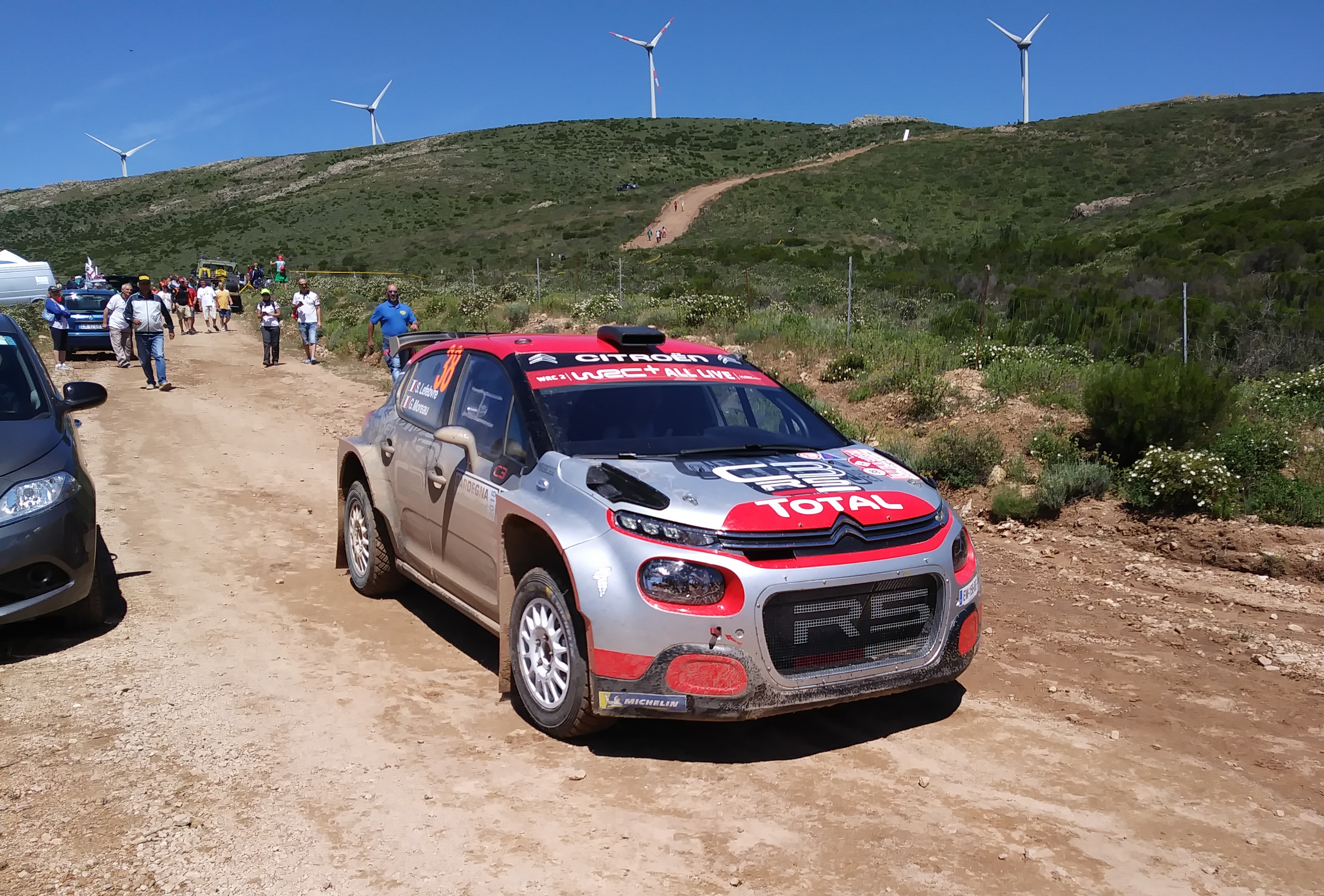 Rally Italia Sardegna 2018 - Lefebvre-Moreau in after "Monti di Alà-1" stage